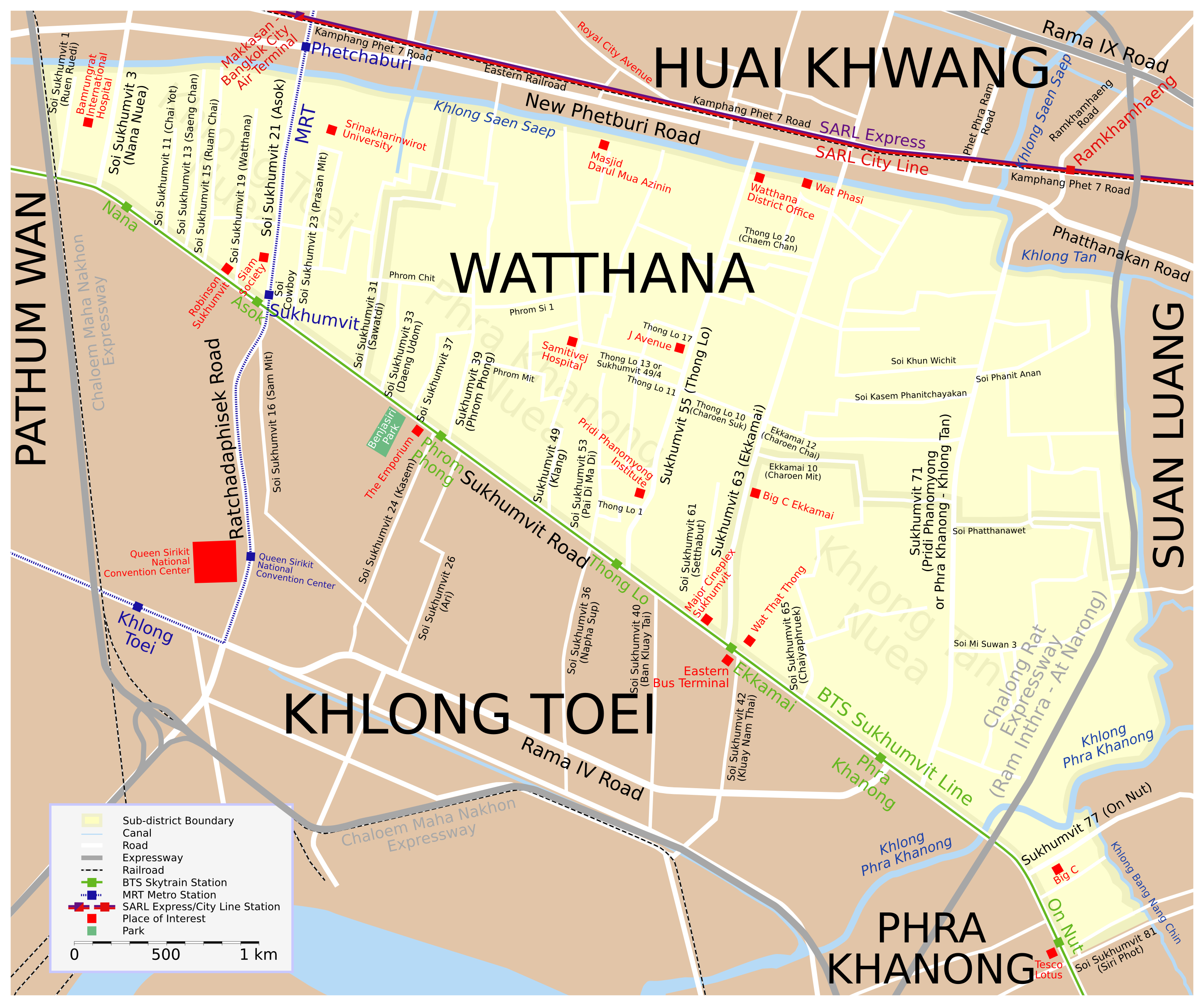 Map of Watthana District, Bangkok.